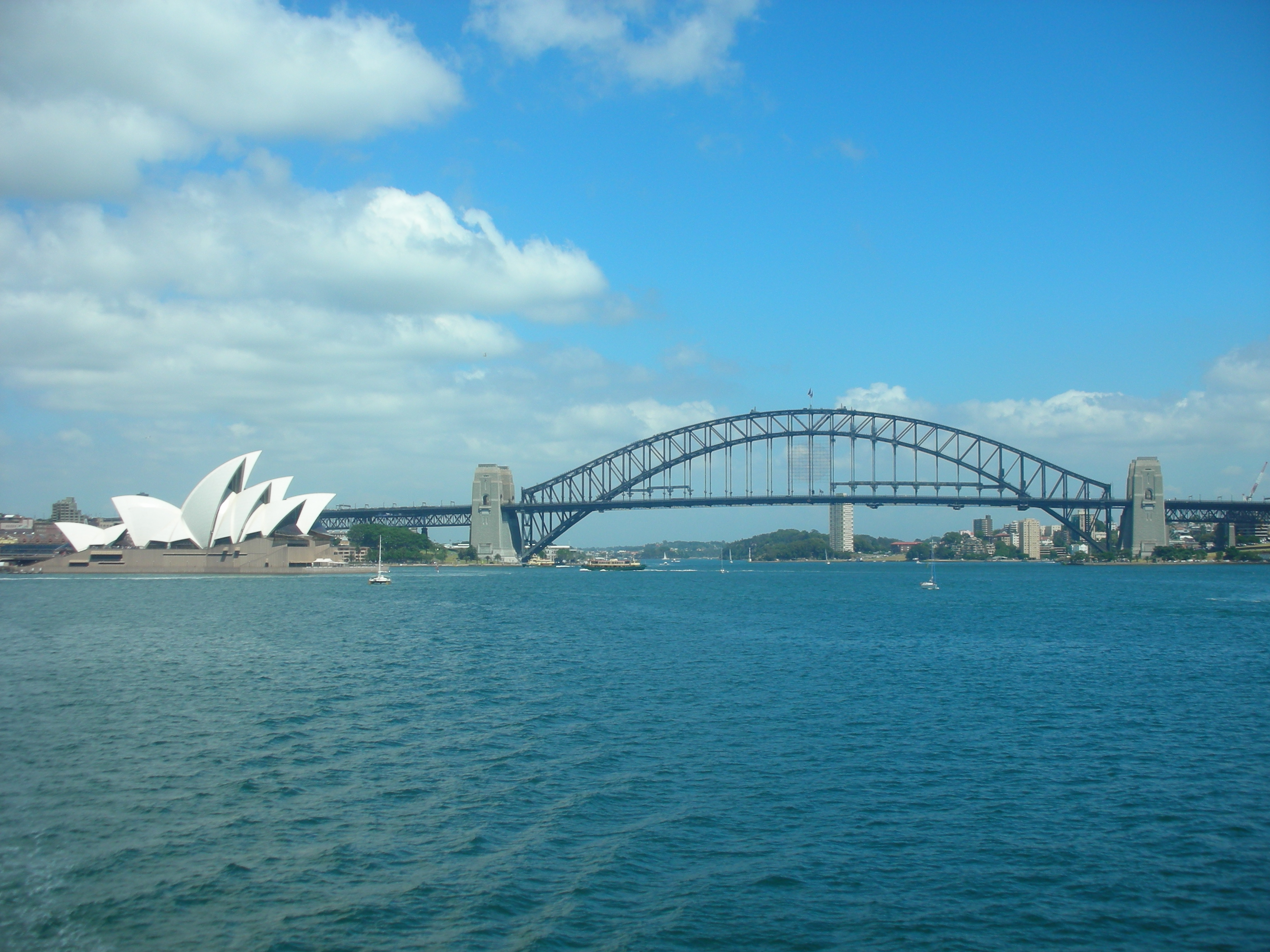 Circular Quay, Sydney